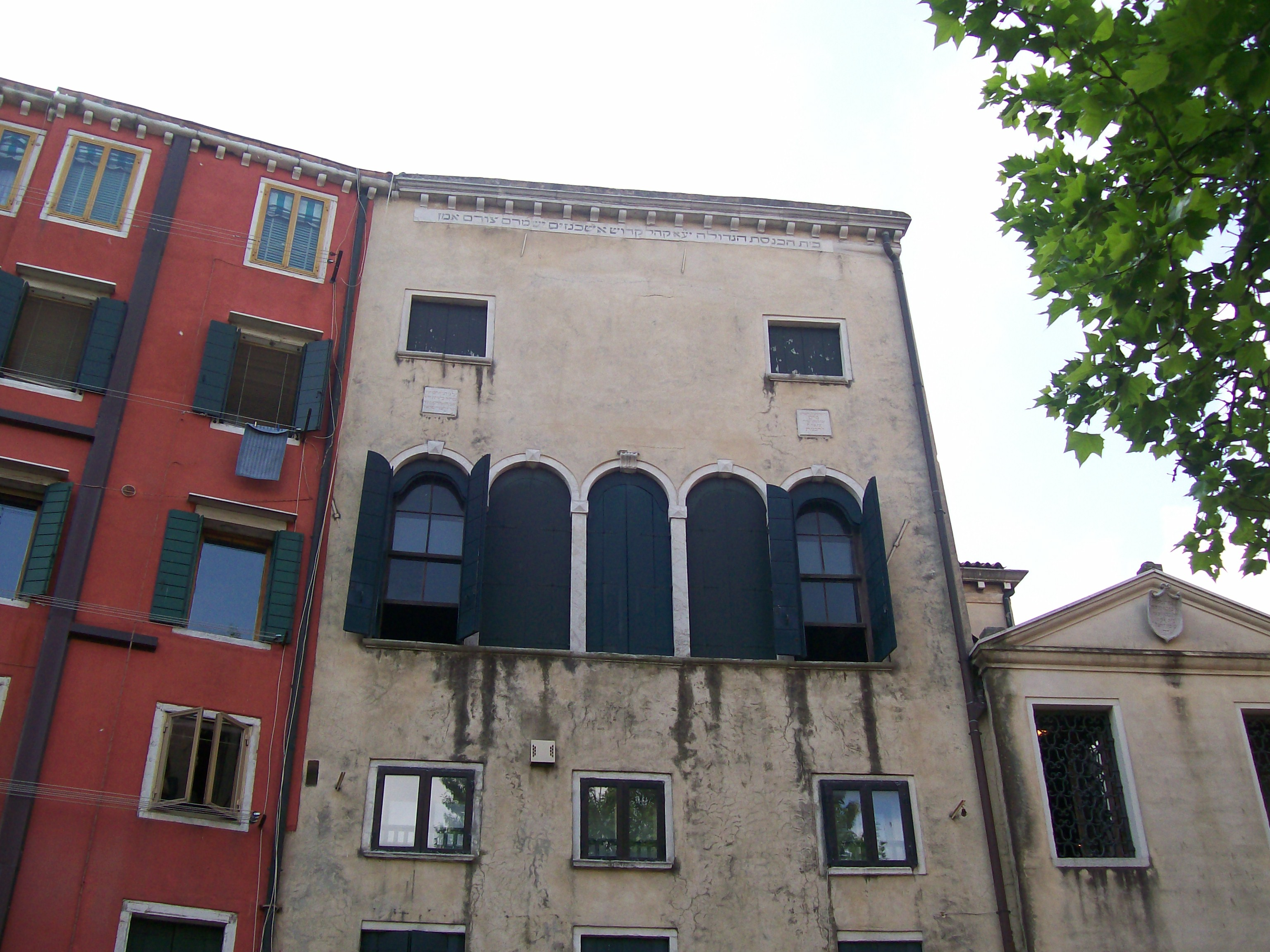 Photo of Great German syangogue of Venice.The palace of synagogue is in Campo Ghetto Novo.